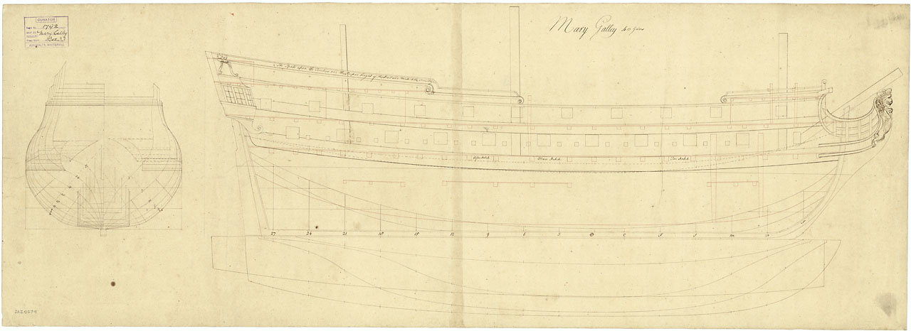 MARY GALLEY 1744 lines